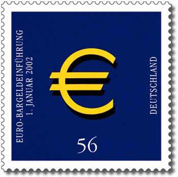 Stamp from Deutsche Post AG from 2002, Introduction of the euro